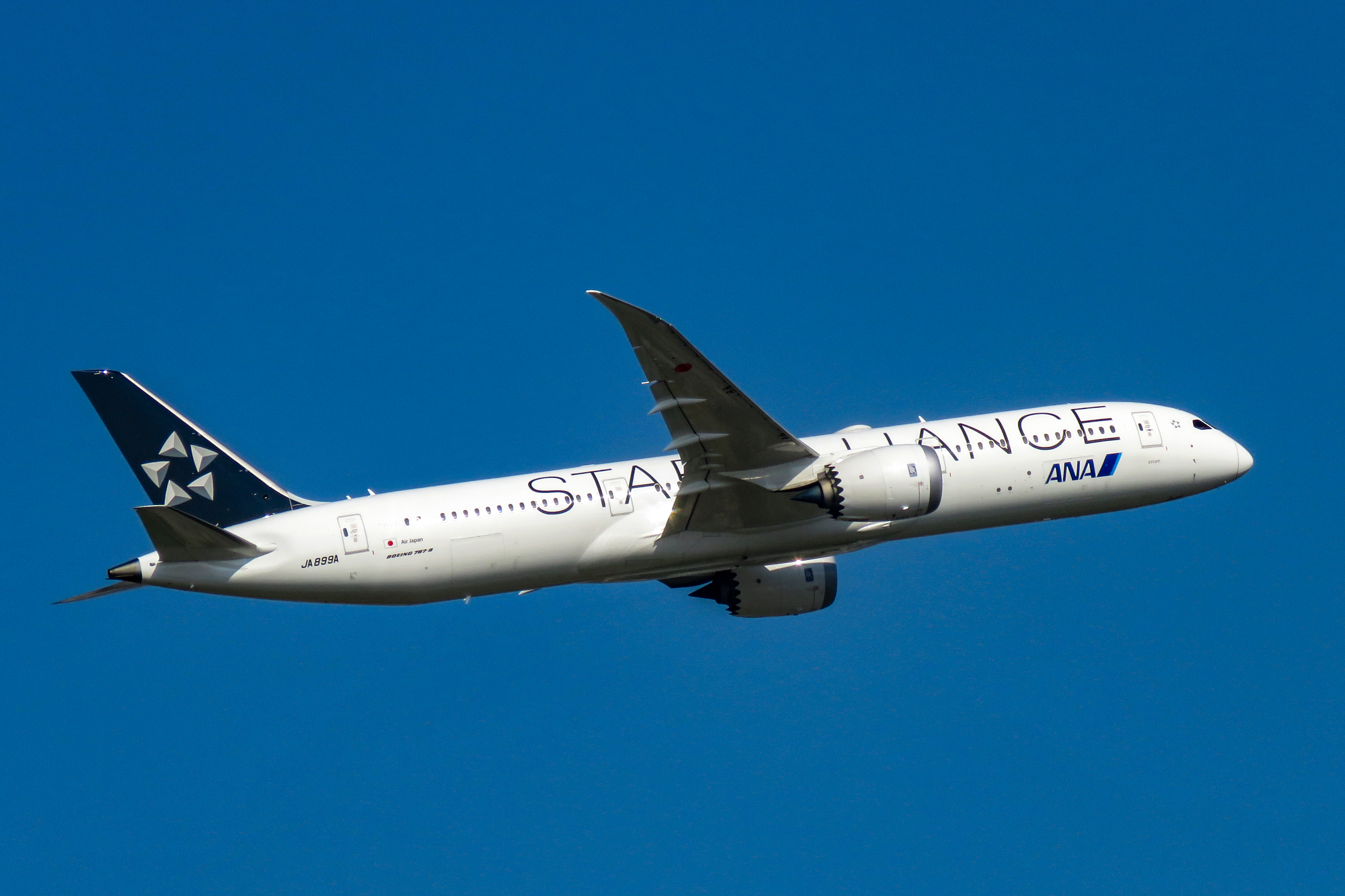 All Nippon 962 to Tokyo-Haneda, taking off from runway 19. Finally got ANA's new Star Alliance logojet!